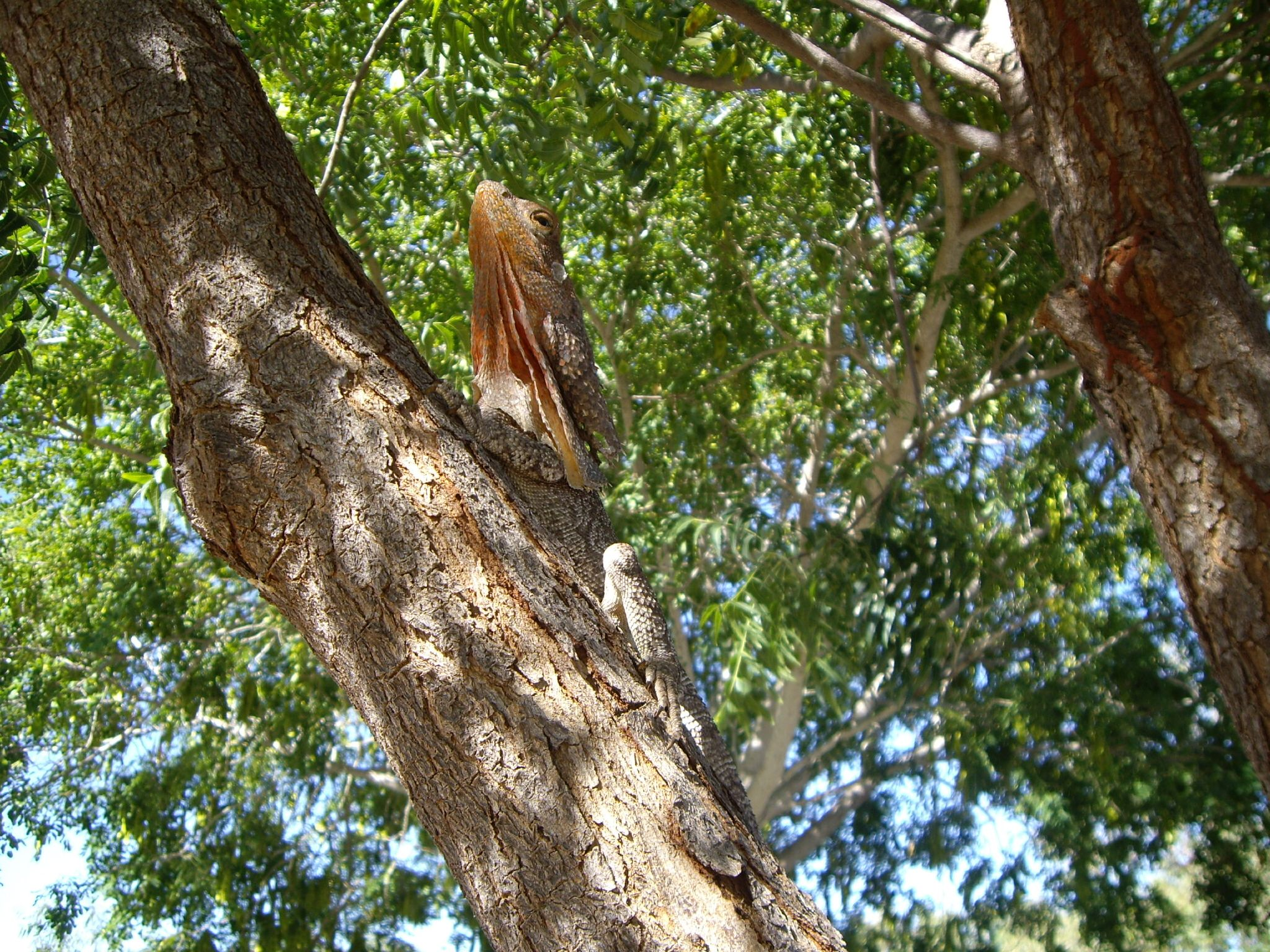 Frilled lizard not in captivity